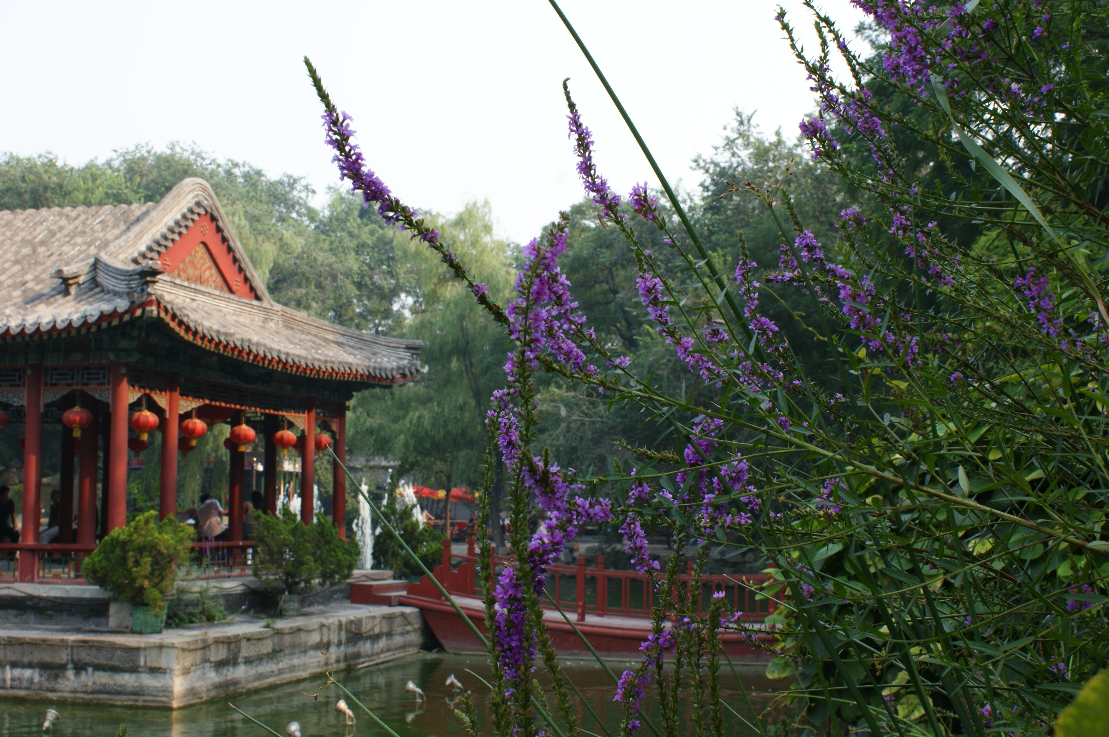 The Gong Wang Fu (Prince Gong Mansion) in Beijing